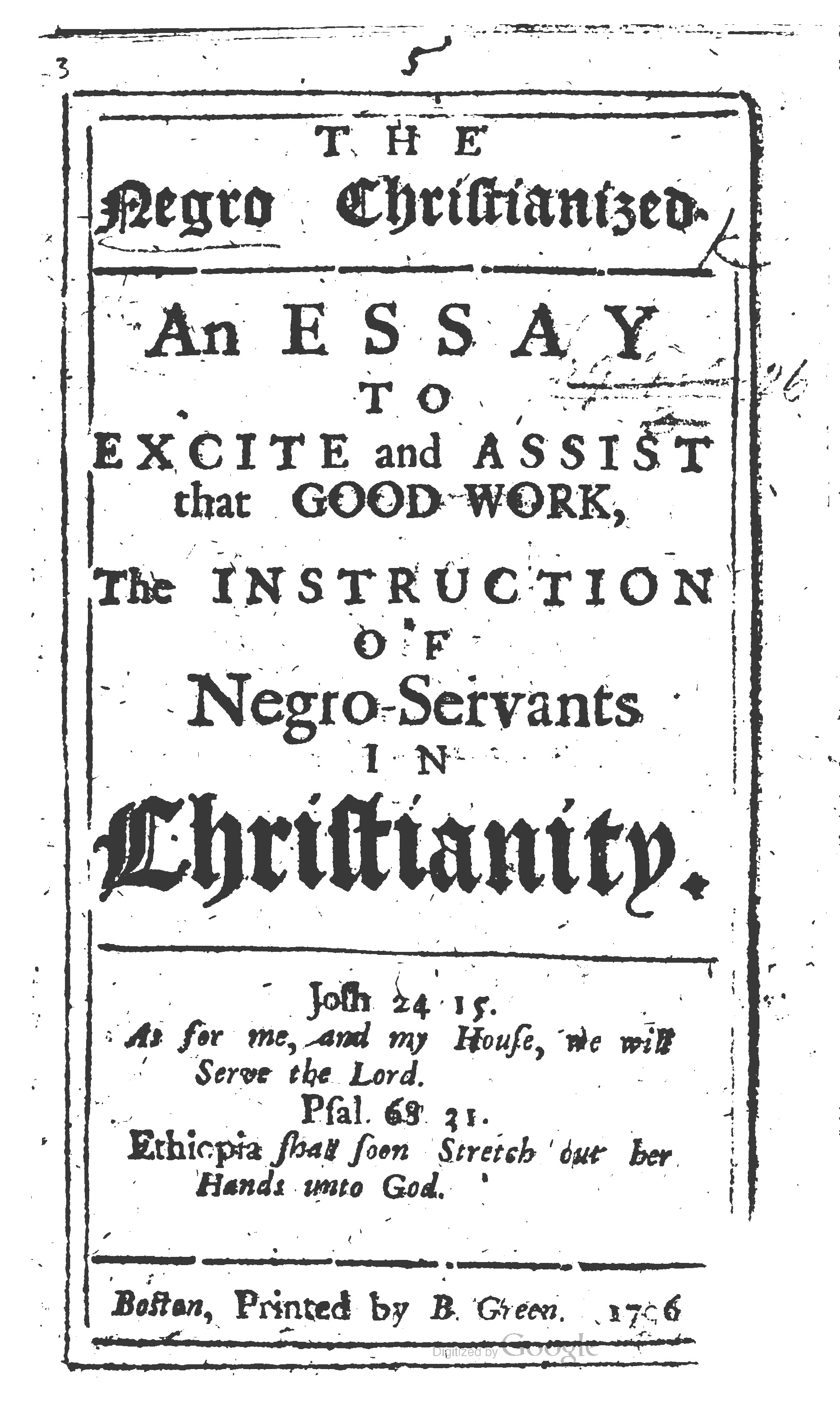 A Page from the book "The Negro Christianized" by Cotton Mather, 1706